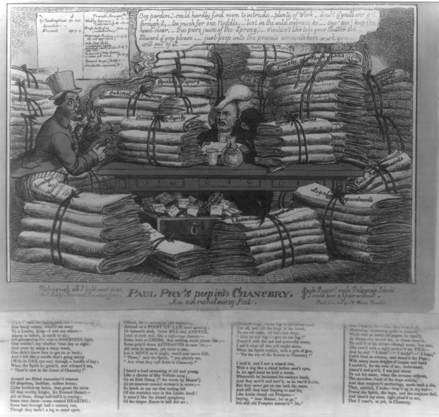 Title: Paul Pry's peep into chancery Abstract: "Eldon sits at a large table covered with bundles of documents tied with red tape, which tower above his head and fill the room ..." (Source: George) Physical description: 1 print : engraving, coloured. Notes: Forms part of: British Cartoon Prints Collection (Library of Congress).; This record contains unverified data from George.; [Williams].